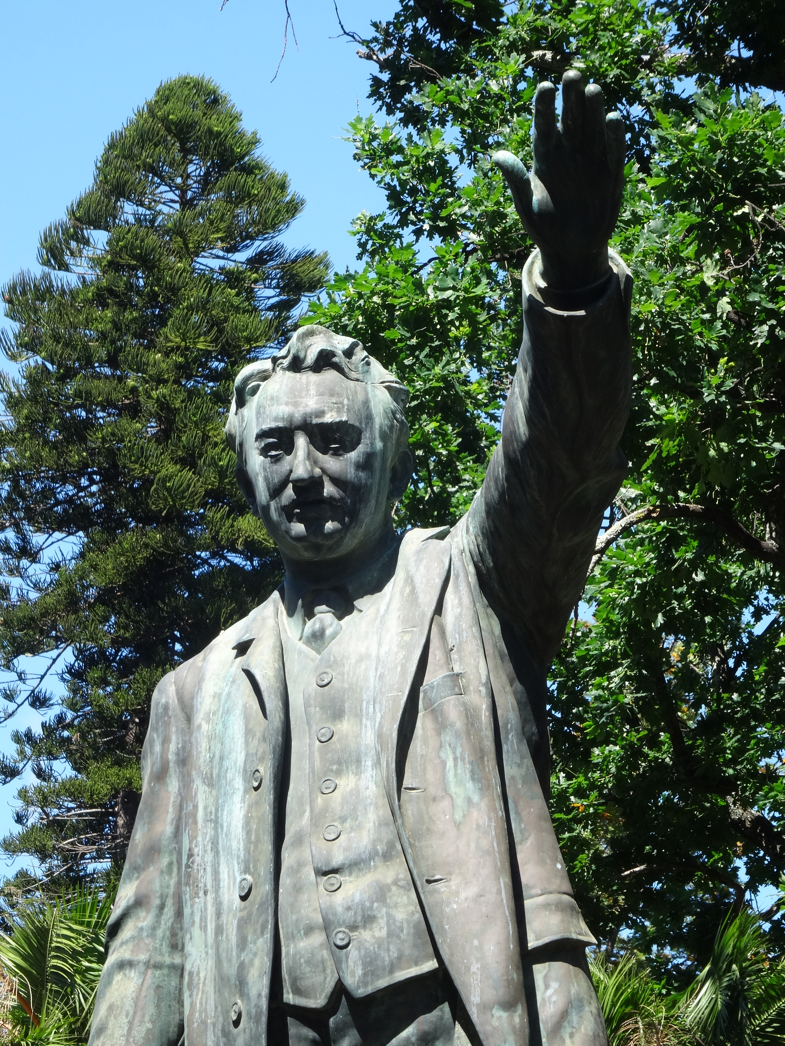 Cecil Rhodes Statue - Cape Town